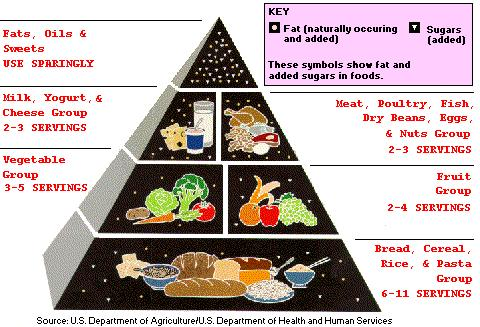 from